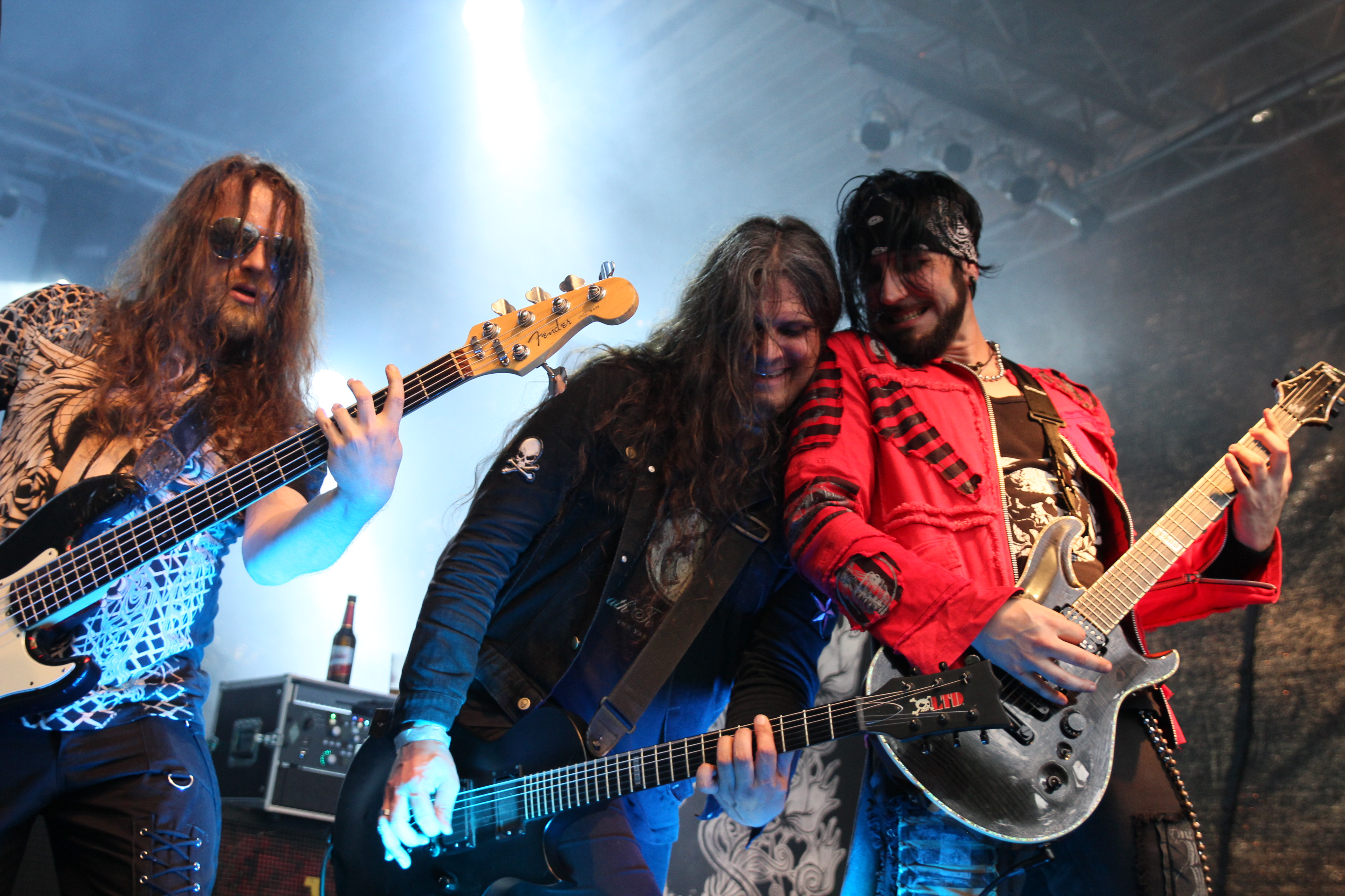 The German dark rock band Lacrimas Profundere at the Nocturnal Culture Night 9 2014 in Deutzen/Germany